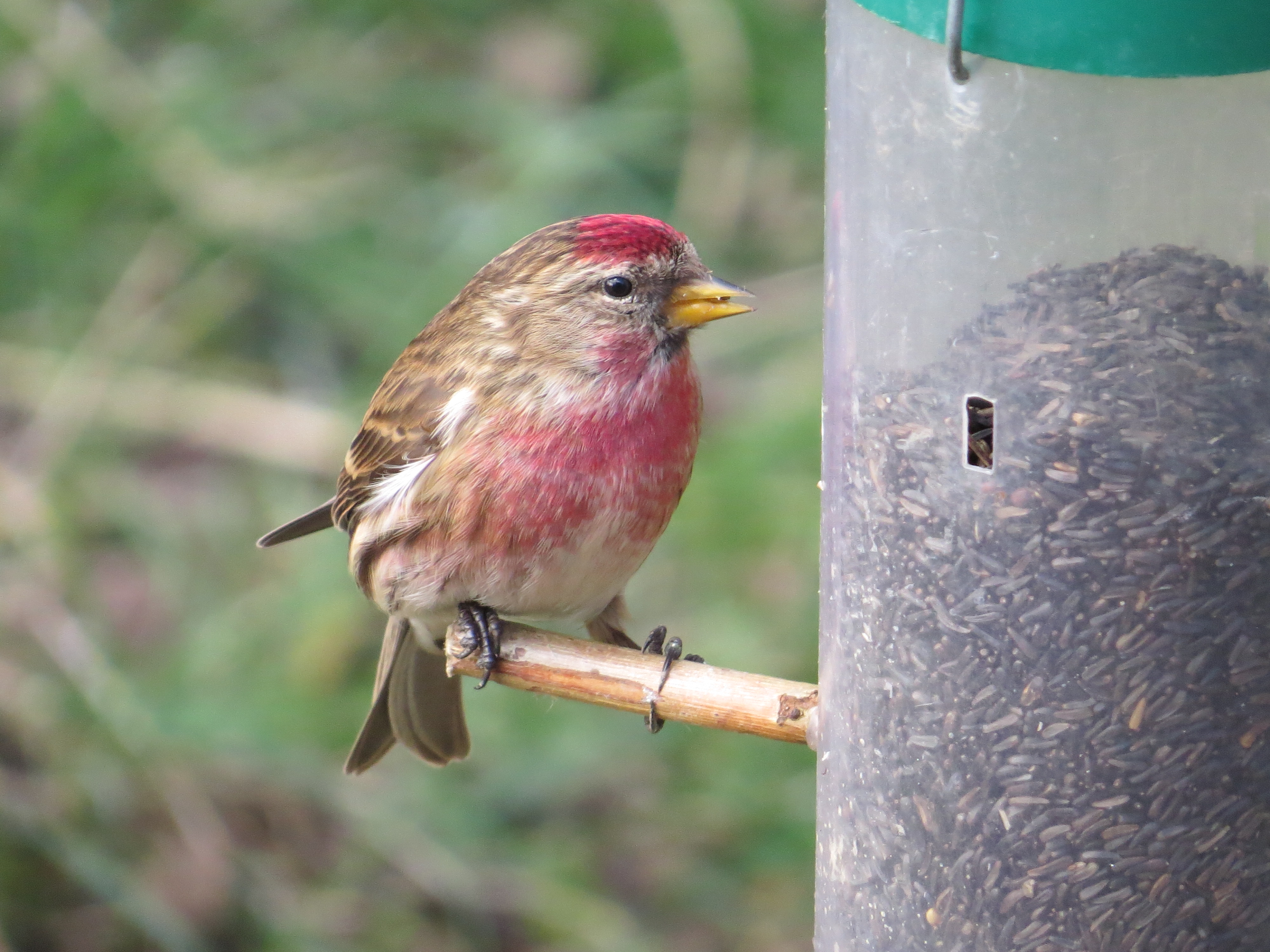 Lesser Redpoll Acanthis cabaret, male, East Chevington, Northumberland, UK